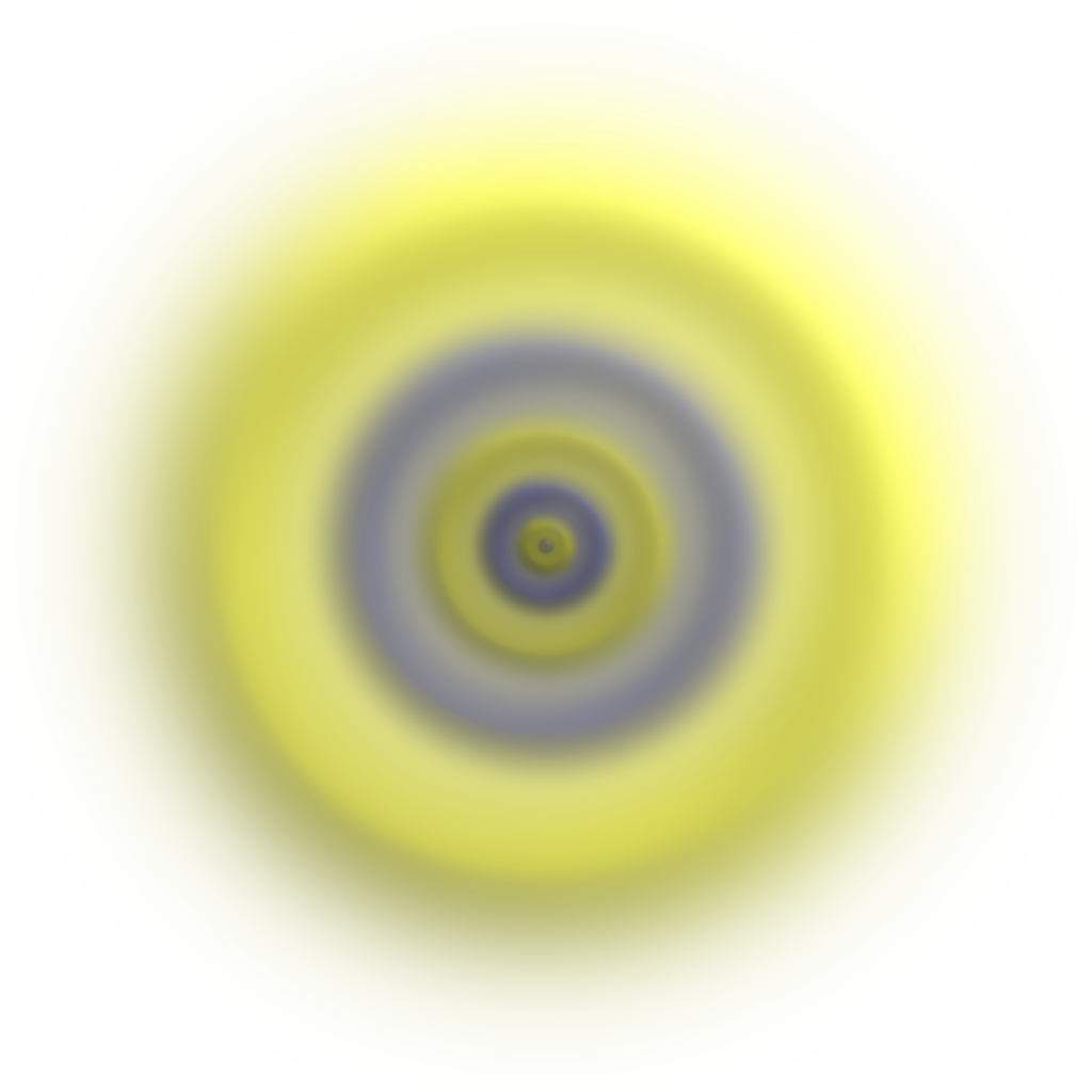 Atomic hydrogen-like single-electron orbital showing ψ n = 6 , l = 0 , m = 0 {\displaystyle \psi _{n{=}6,l{=}0,m{=}0 , also called 6s-orbital. The image is a 3D rendering of the spatial density distribution of |𝜓|² with the color depicting the phase of 𝜓. The spatial distribution is smooth and vanishes for large radii. The cloud is a more realistic representation of an orbital than the more common solid-body approximations. At full resolution, 1Å=2.8px.